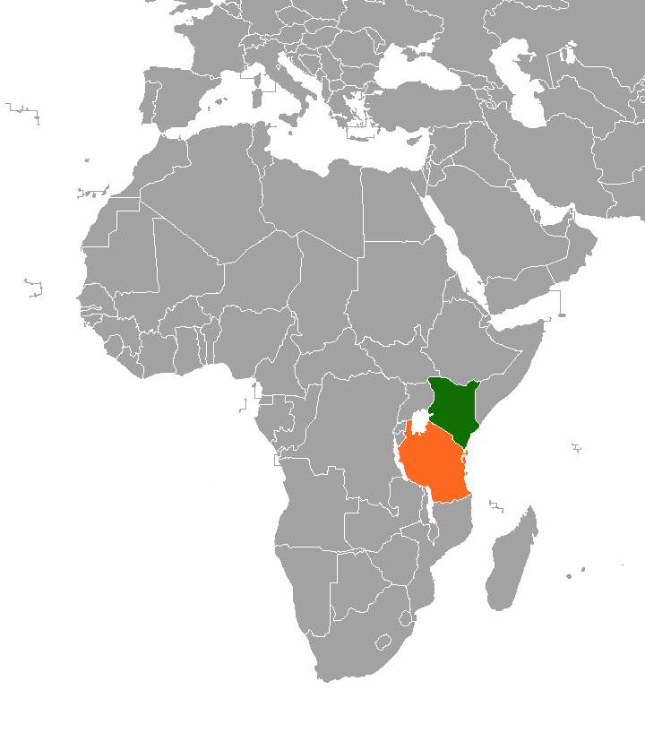 Map showing locations of Kenya and Tanzania